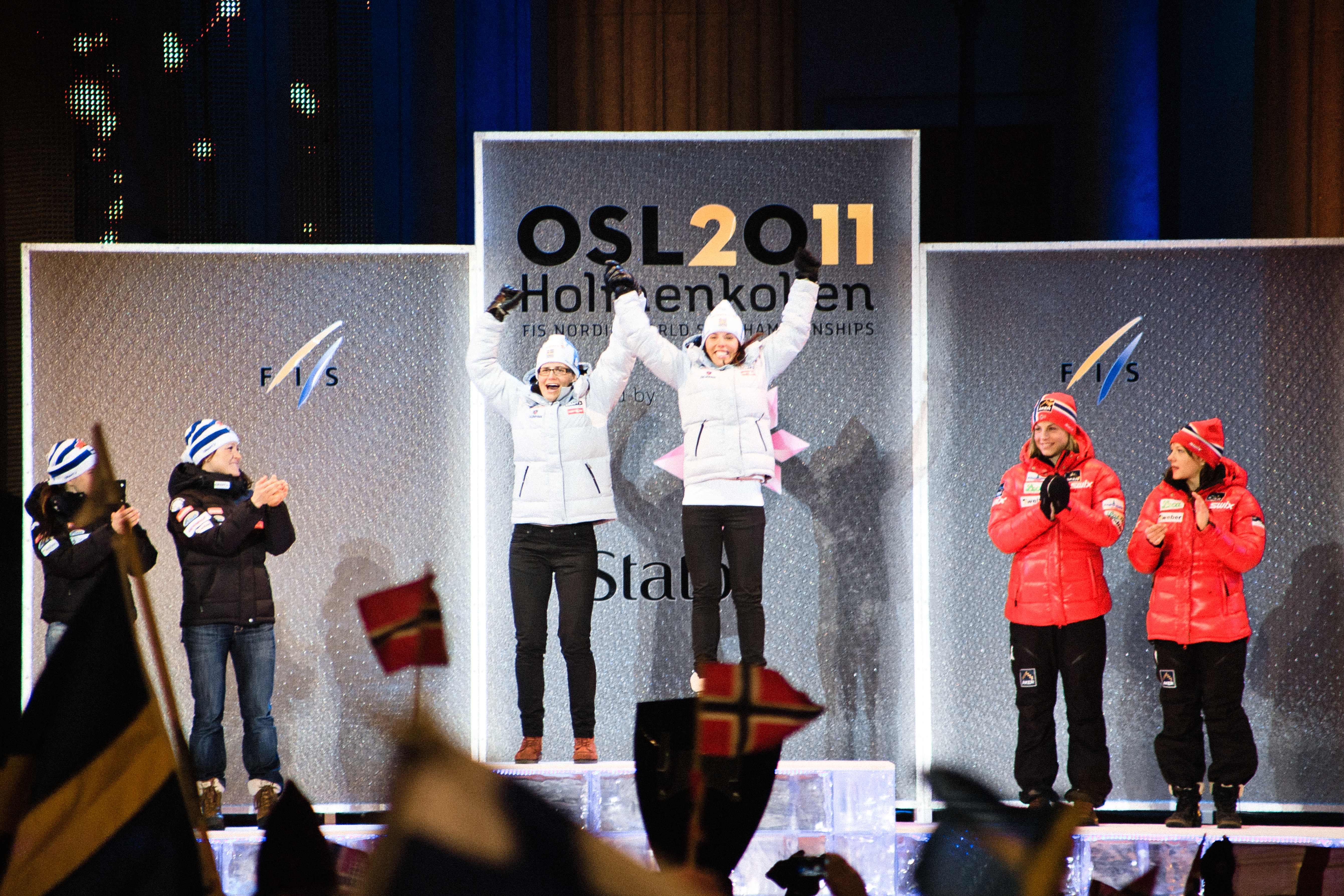 Medal ceremony of the women's team sprint at the FIS Nordic World Ski Championships 2011. Gold: Charlotte Kalla and Ida Ingemarsdotter (Sweden), silver: Aino Kaisa Saarinen and Krista Lähteenmäki (Finland), bronze: Maiken Caspersen Falla and Astrid Uhrenholdt Jacobsen